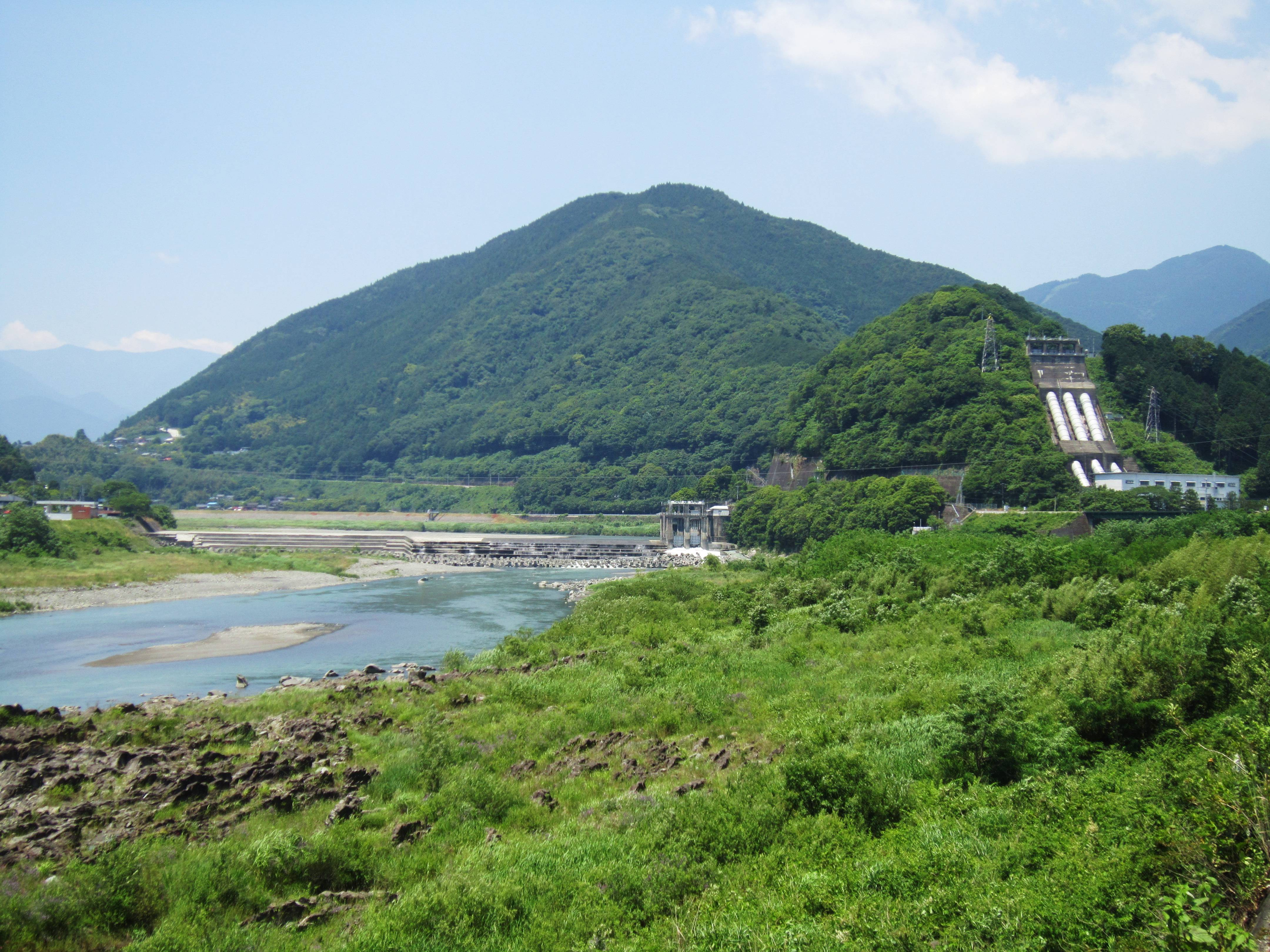 Fujikawa I power station and Toshima Dam.